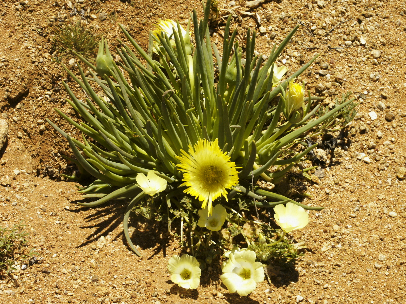 Narrow-leafed iceplant/False iceplant/Slender-leaved iceplant/Marigold Iceplant, Conicosia pugioniformis (L.) N.E. Br, flowering Desert, Namaqualand, Goegap Nature Reserve, Northern Cape, South Africa